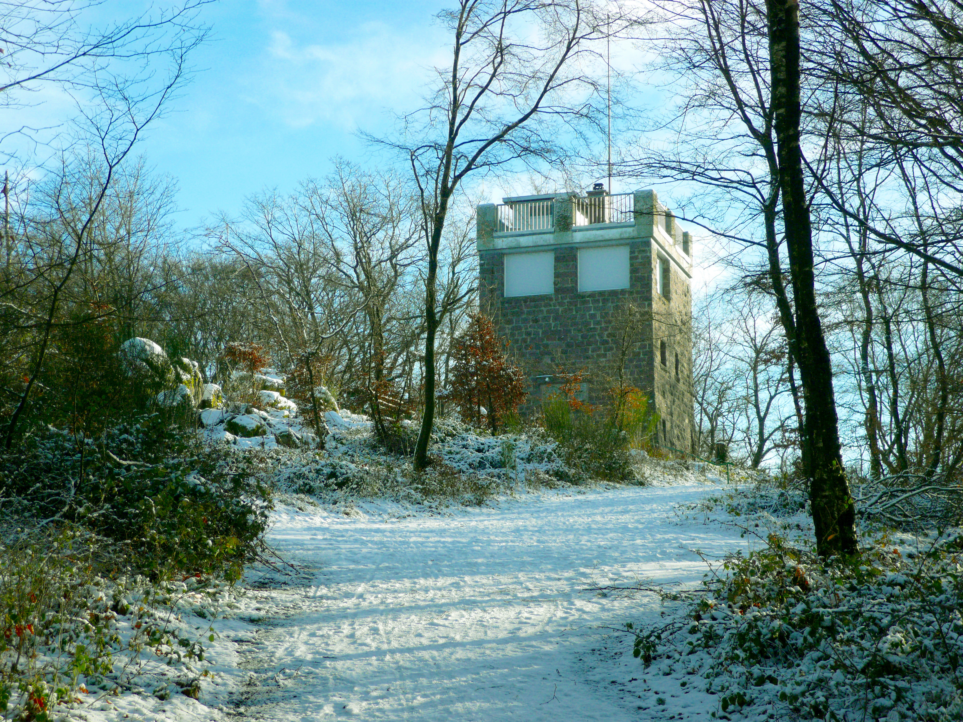 On the top of Eichelberg, a mountain in Odenwald